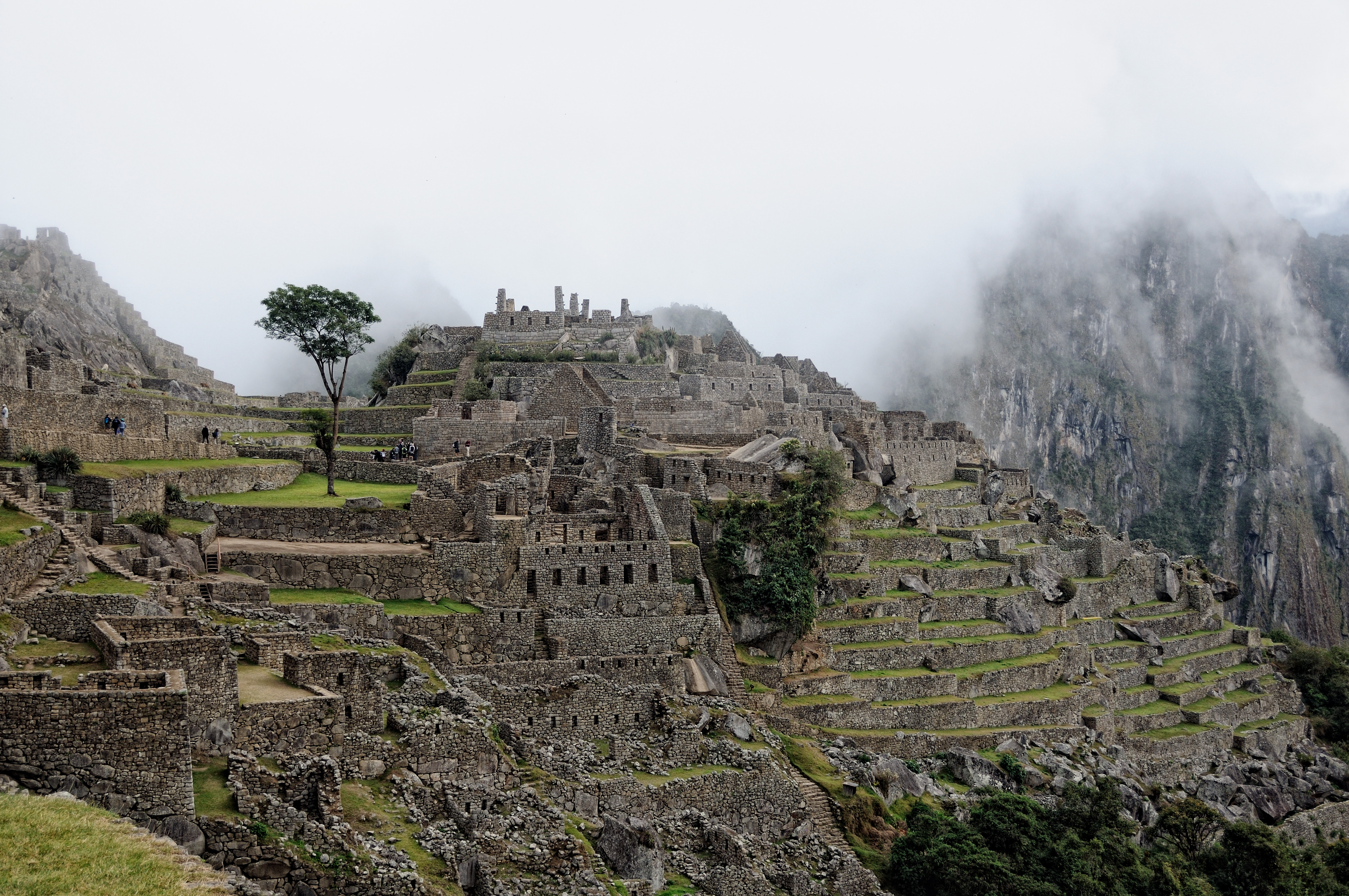 Dawn mists rising over the terraced structures.